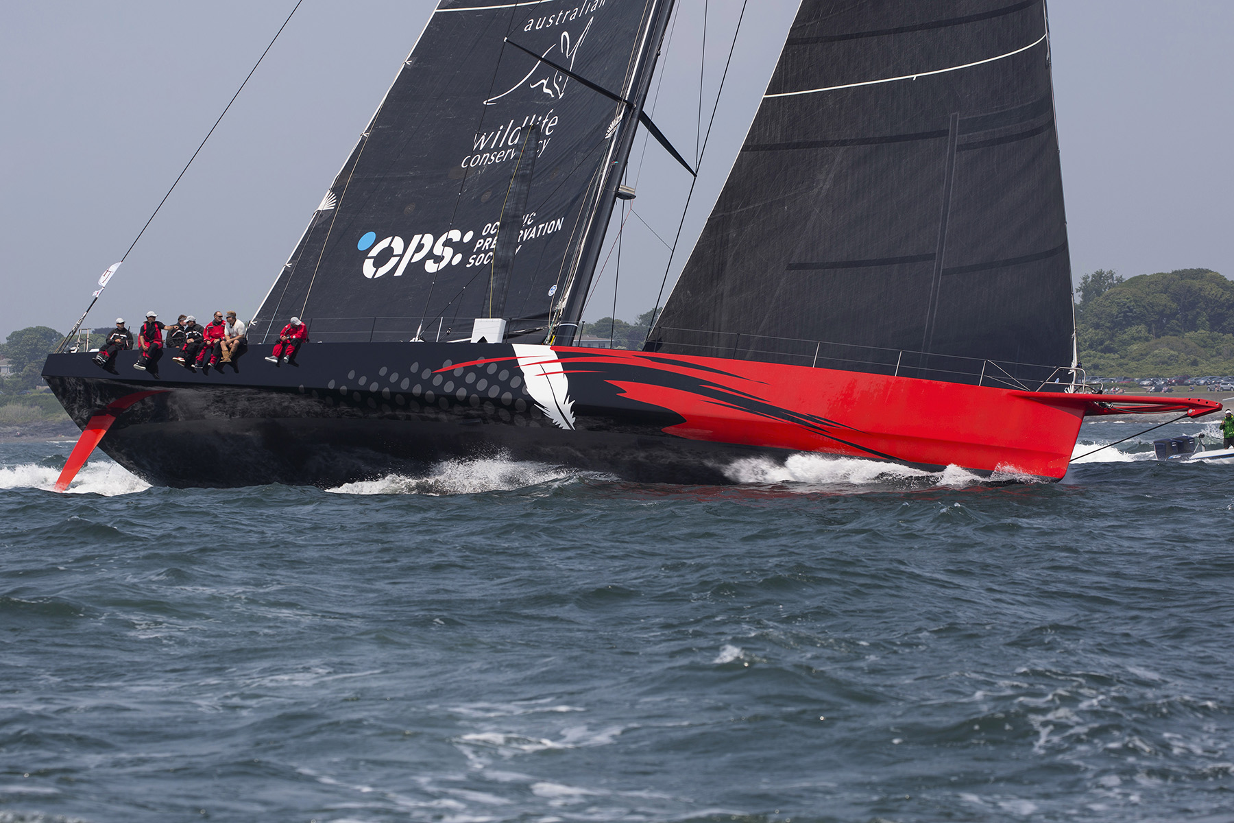 Comanche in the Rolex Transatlantic Race 2015 leaving Newport RI for Plymouth England. Designed by VPLP and Guillaume Verdier, Built by Hodgdon Yachts, East Boothbay, Me. ©Billy Black 401.683.5500